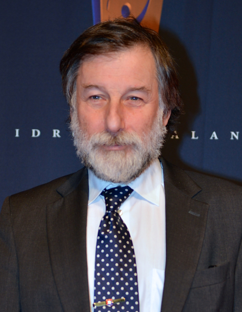 Leif Pagrotsky at the Swedish Sports Gala at the Ericsson Globe in Stockholm, January13, 2014.